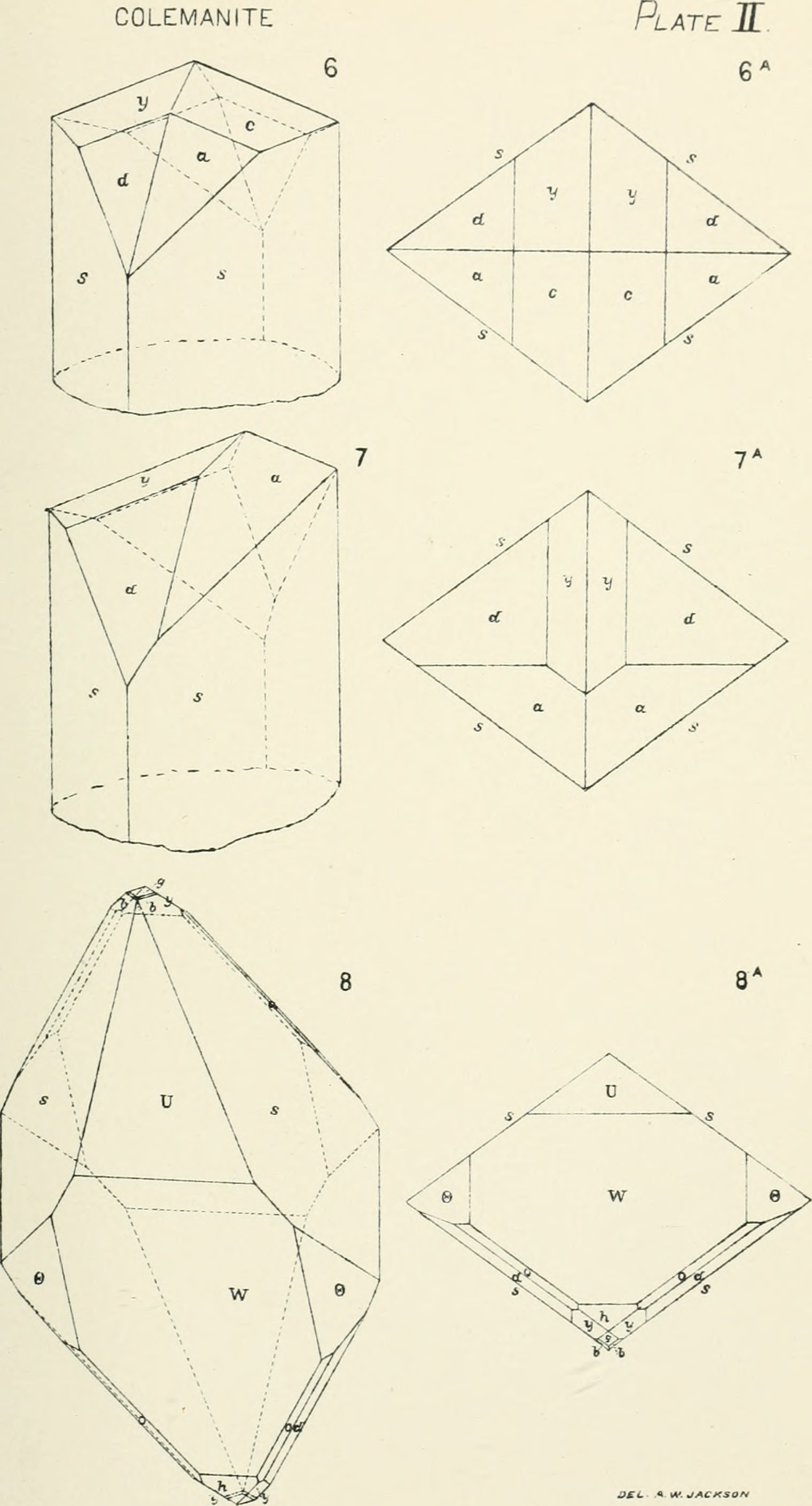 Title: Bulletin Year: 1886 (1880s) Authors: California Academy of Sciences Subjects: Science Publisher: San Francisco Text Appearing Before Image: COLEMANITE Text Appearing After Image: '